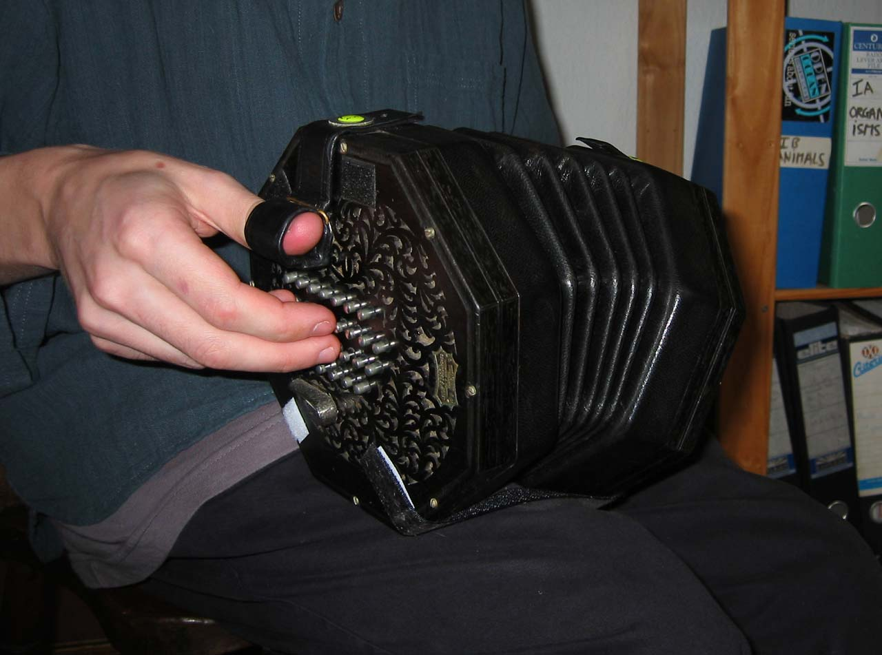 English Concertina, made by Wheatstone & Co around 1920, velcro added by owner!